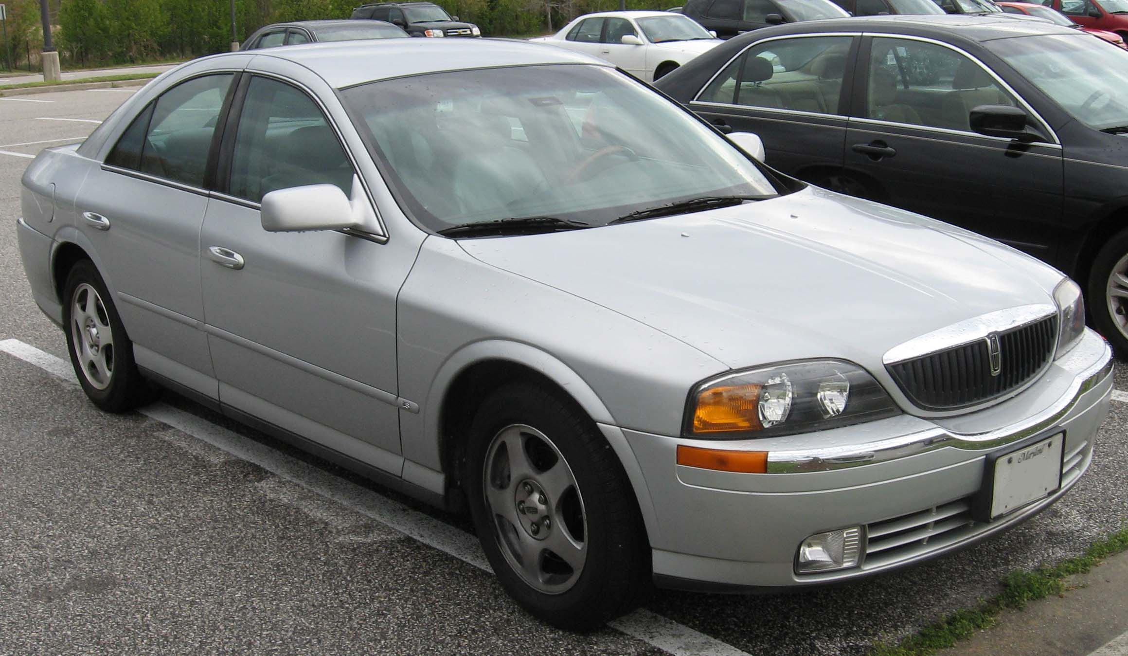 2000-2002 Lincoln LS photographed in USA.